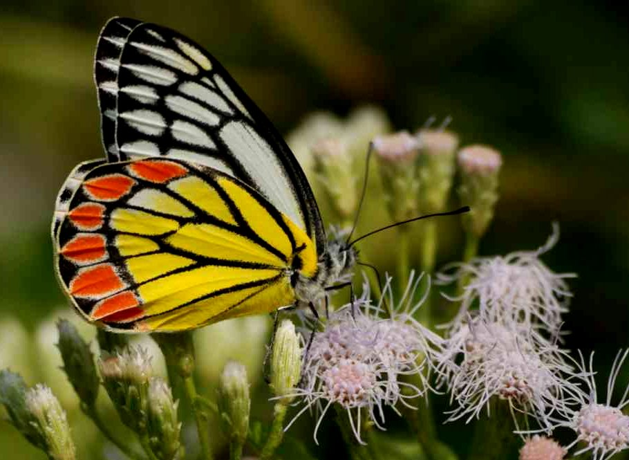 Common Jezebel (হরতনি),Kolkata, West Bengal, India